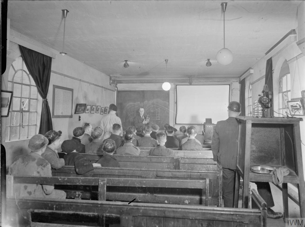 Bevin Boy- Mining Training at Ollerton, Nottinghamshire, February 1945 In the lecture room of the training school for 'Bevin Boys' at Ollerton Colliery, mining trainees listen to a lecture on the Davey lamp by G B Tristam. The original caption states that the lecture room is "equipped with a dyascope for lantern slides". This projector, and its associated screen, can be seen on the right of the photograph.